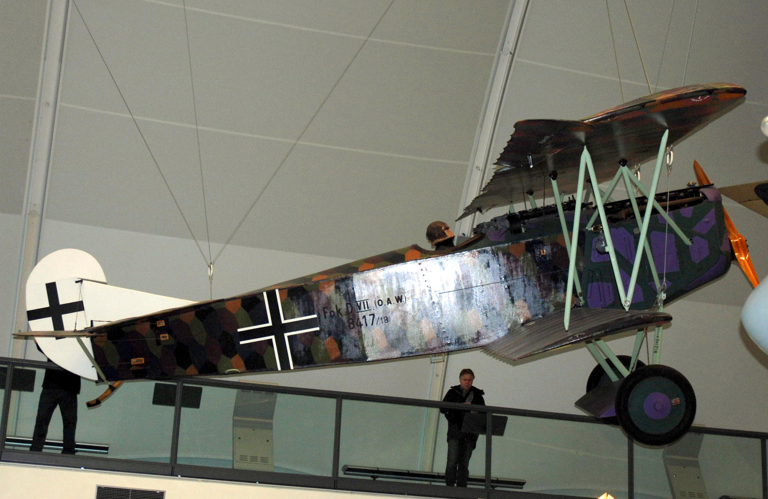 Photo ref; Nikon-D80-2013-DSC_1154 (Edited)